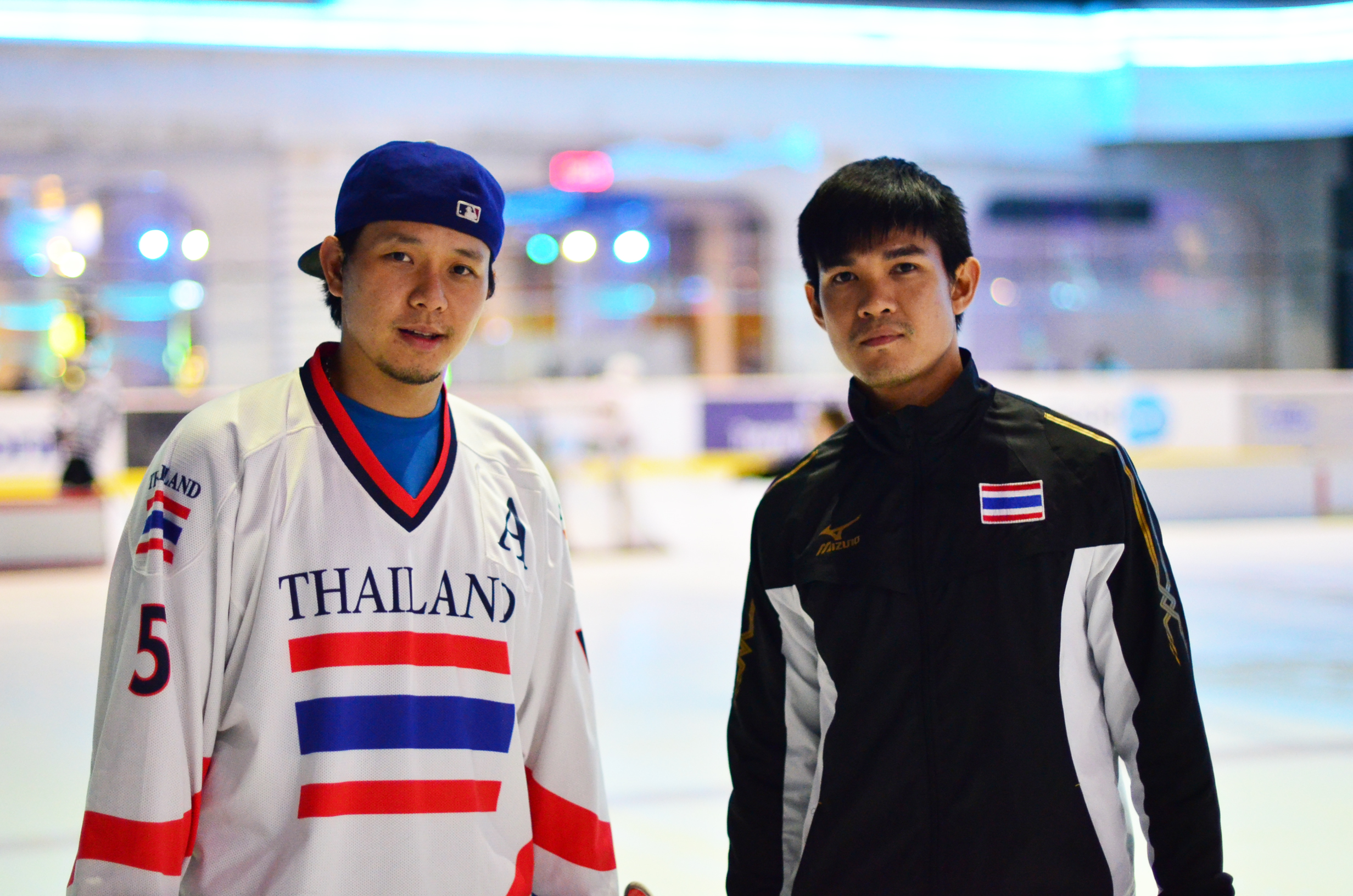 Tewin & Teerasak